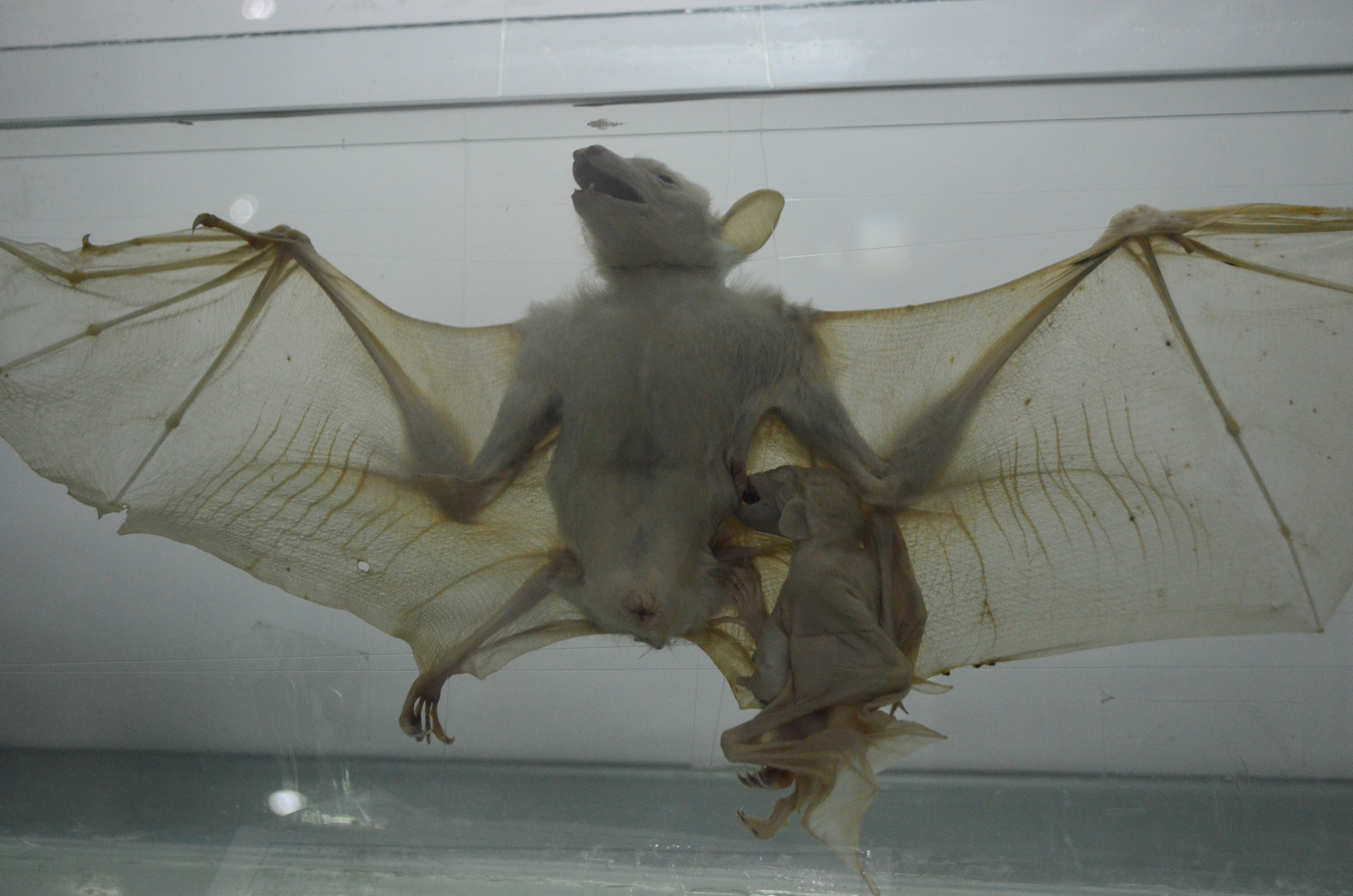 Natural History and Technology Museum of Shiraz University